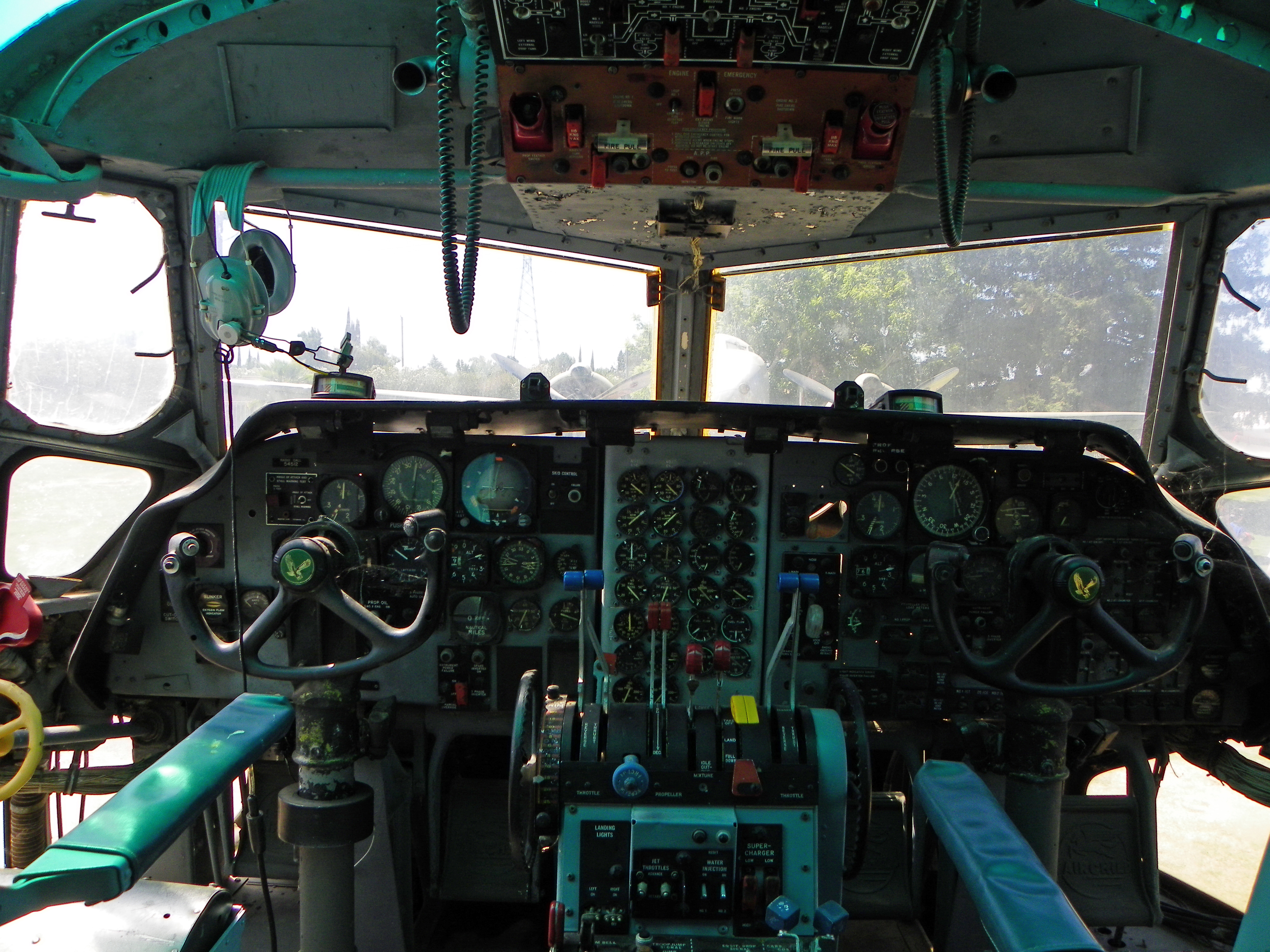 Cockpit of a C-123K Provider at the Castle Air Museum in Atwater, California.